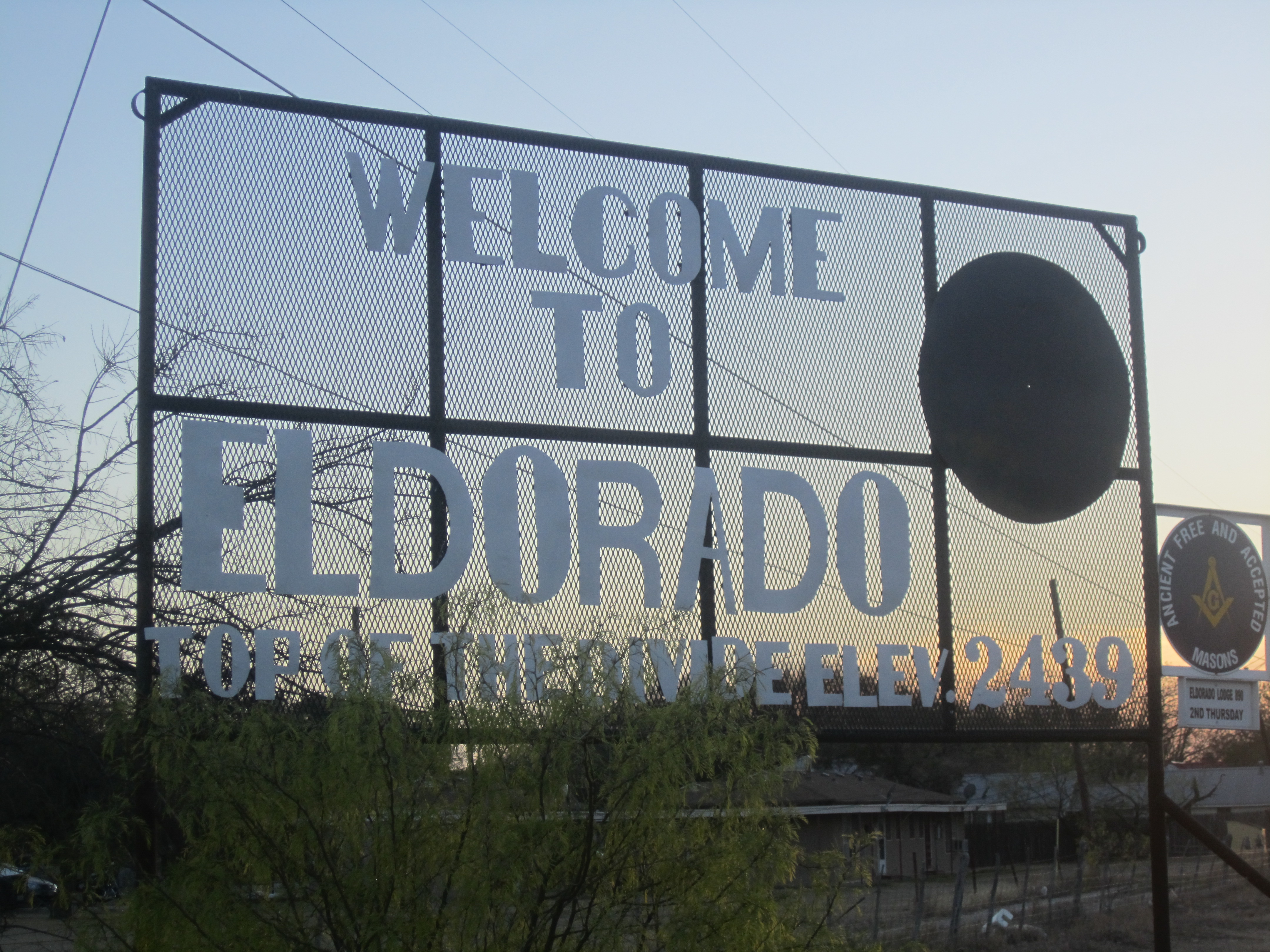 I took photo with Canon camera in Eldorado, TX.